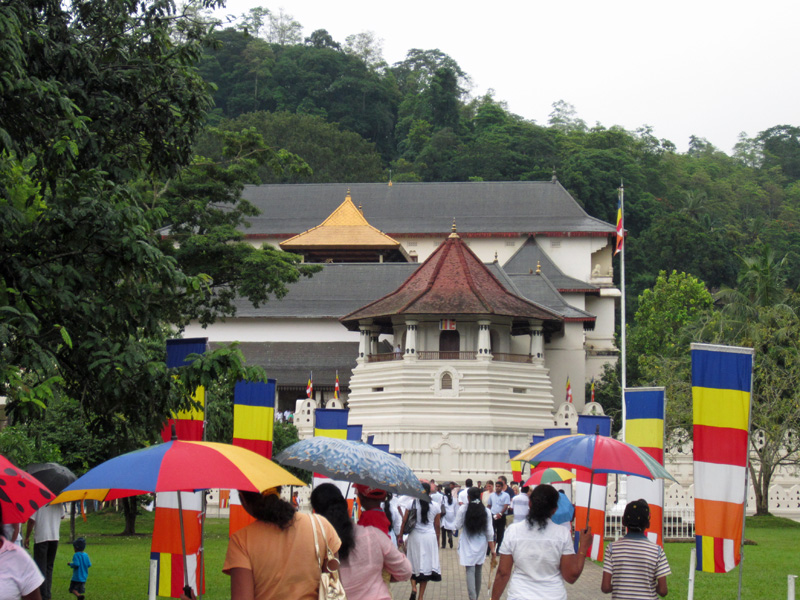 Outside the temple of the tooth in Kandy, Sri Lanka